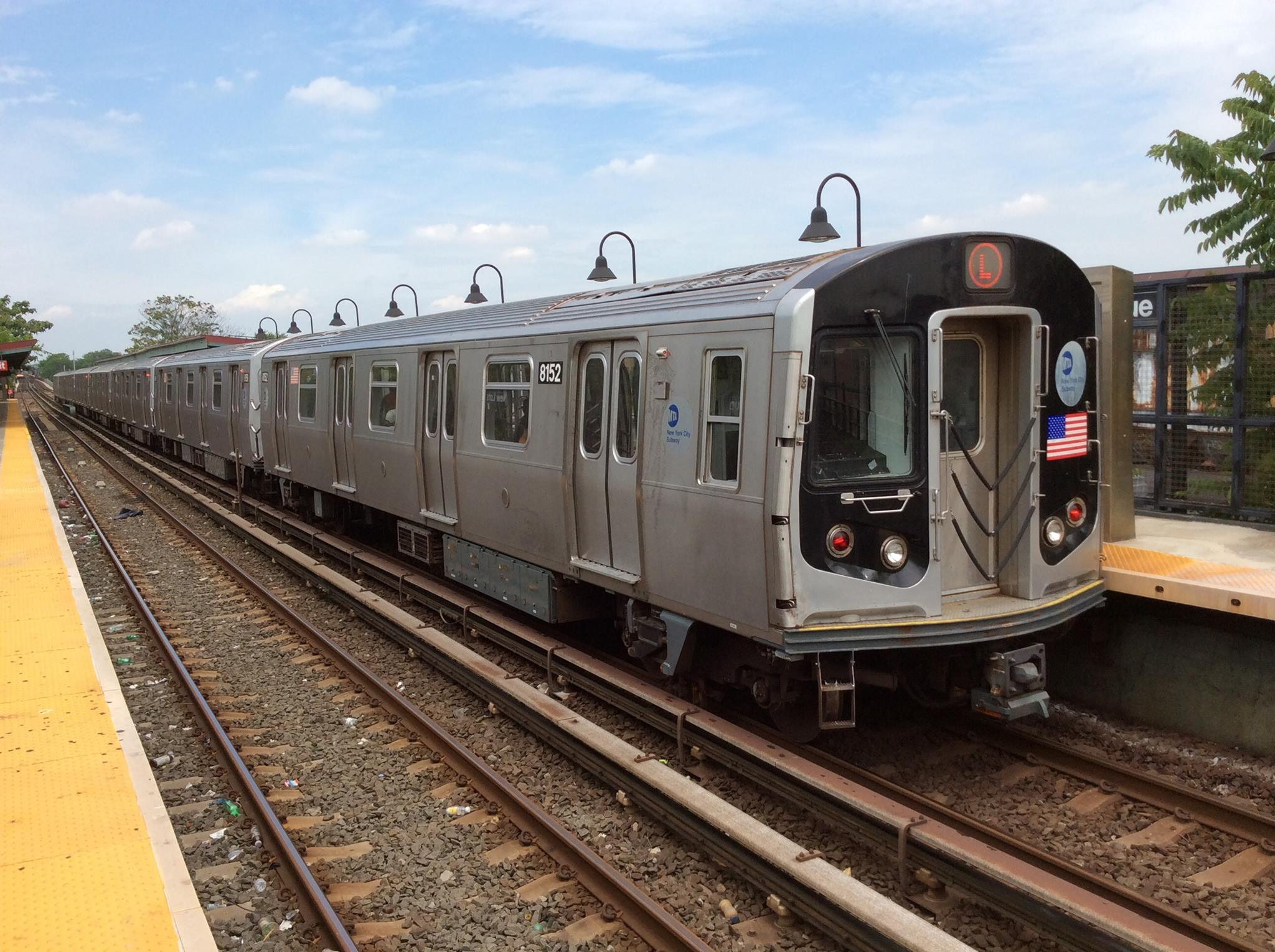 Northbound L train at New Lots.